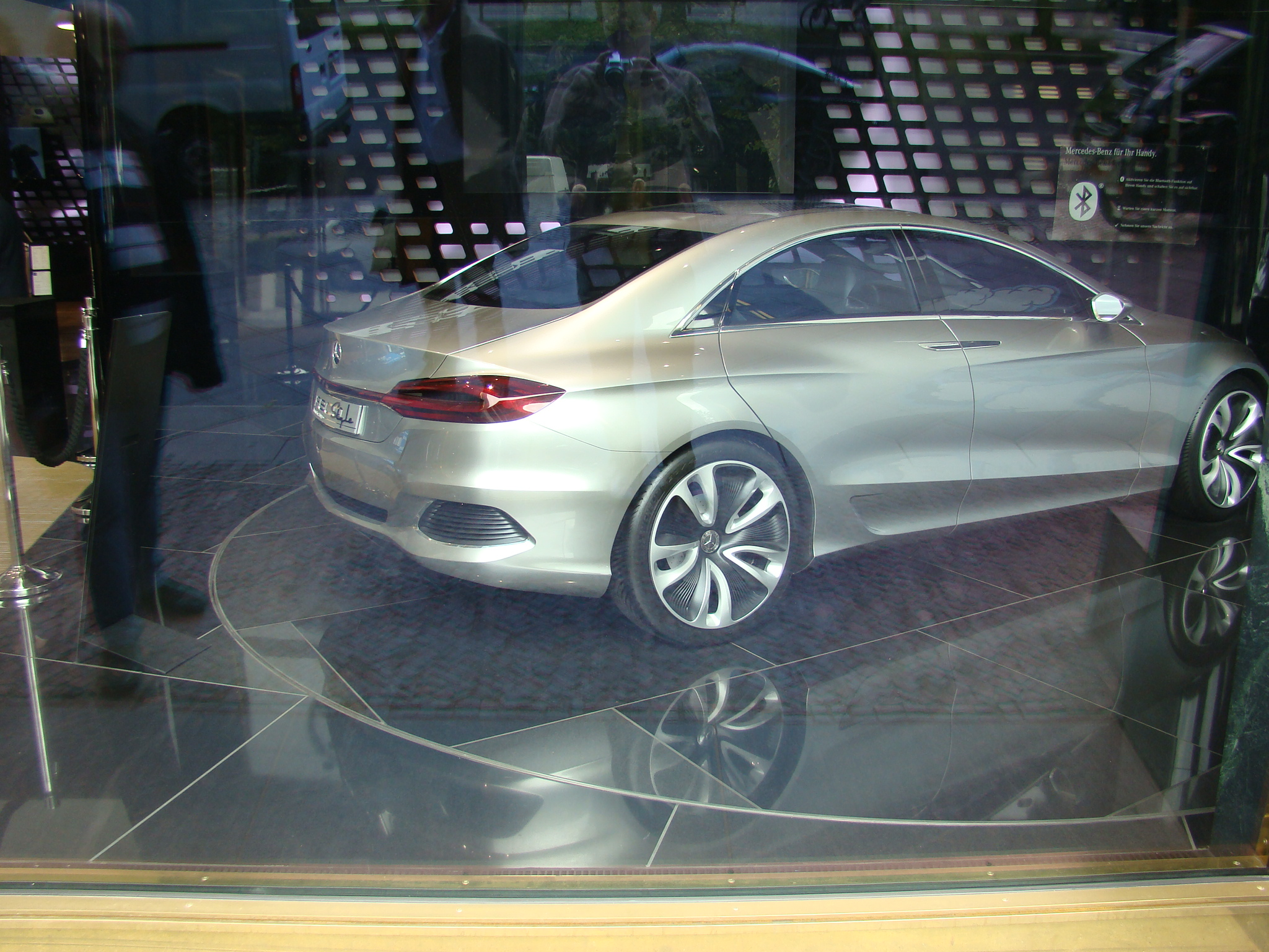 Mercedes-Benz F800